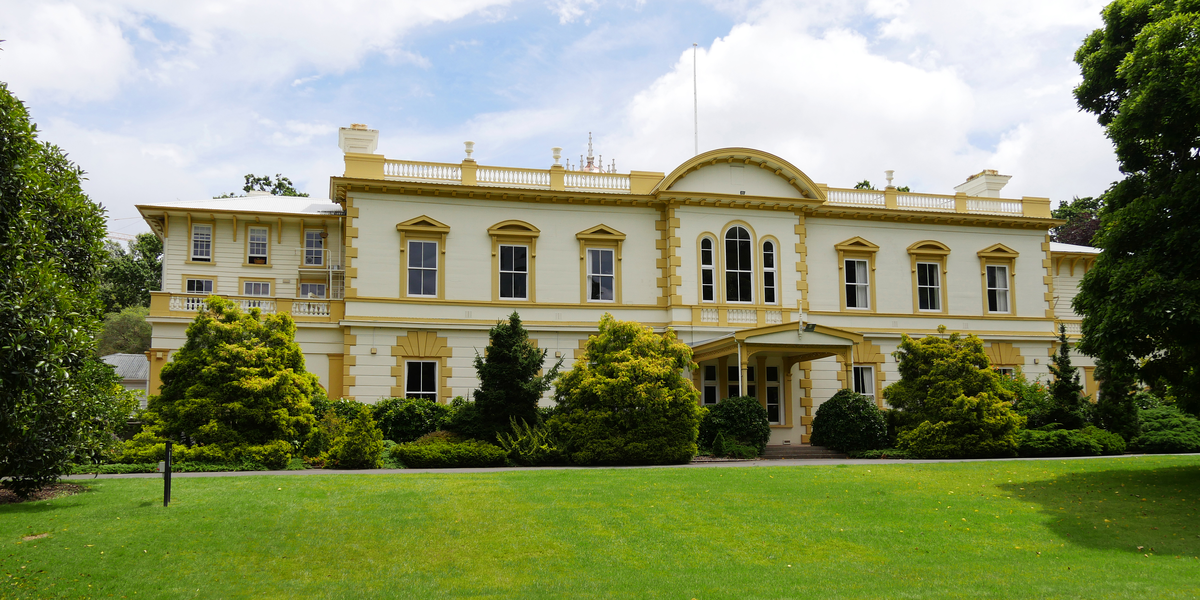 Old Government House, Auckland, North Island, New Zealand (third building from 1856)